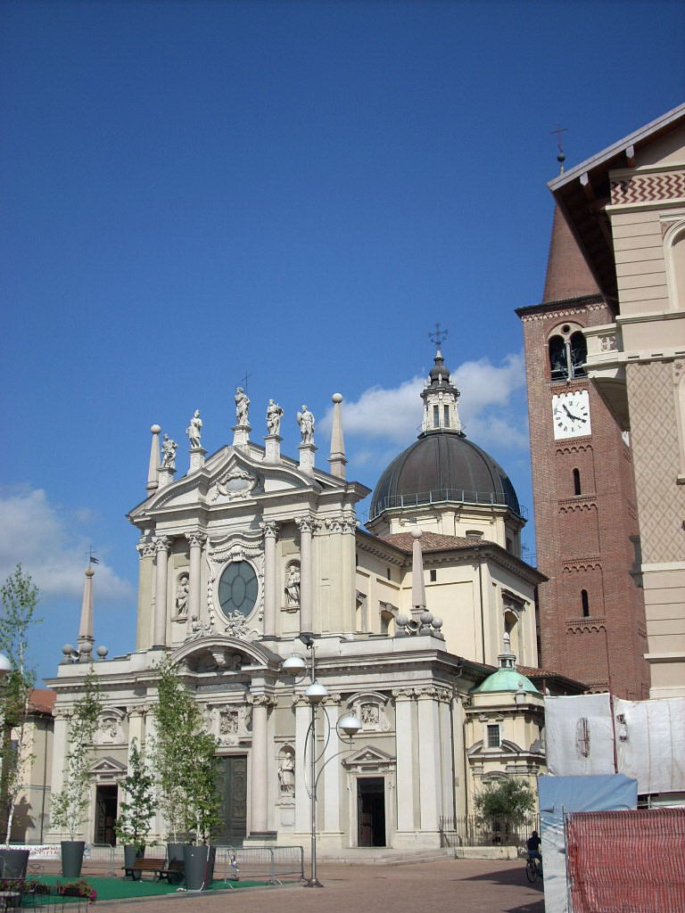 The church of San Giovanni Battista in Busto Arsizio